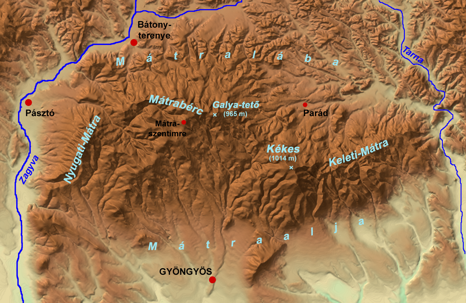 Map of the Mátra Mts. (Hungary)